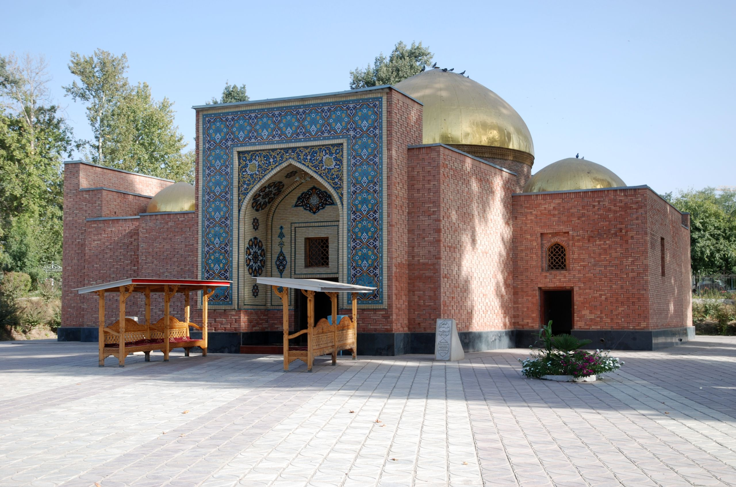 Kulob, mausoleum of Sayyid Ali Hamadhani